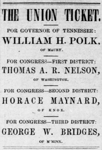 Newspaper advertisement for the Union (anti-secession) candidates for the 1861 elections in the U.S. state of Tennessee. Polk was badly defeated, but the three congressional candidates were successful.